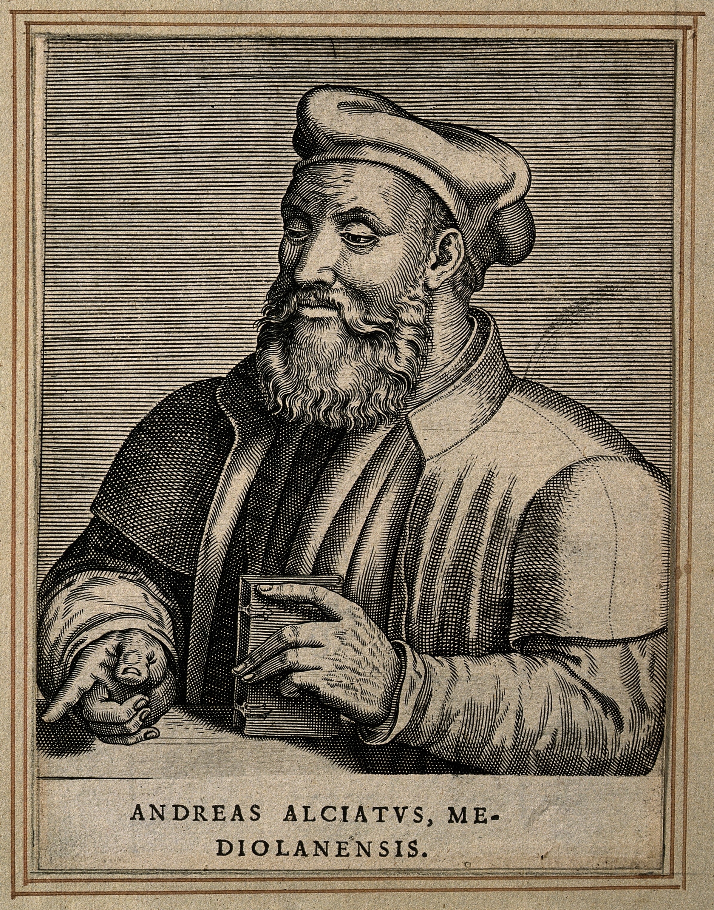 Andrea Alciati. Woodcut. Iconographic Collections Keywords: alciati, andrea, 1492-1550; portrait prints; Andrea Alciati; woodcuts